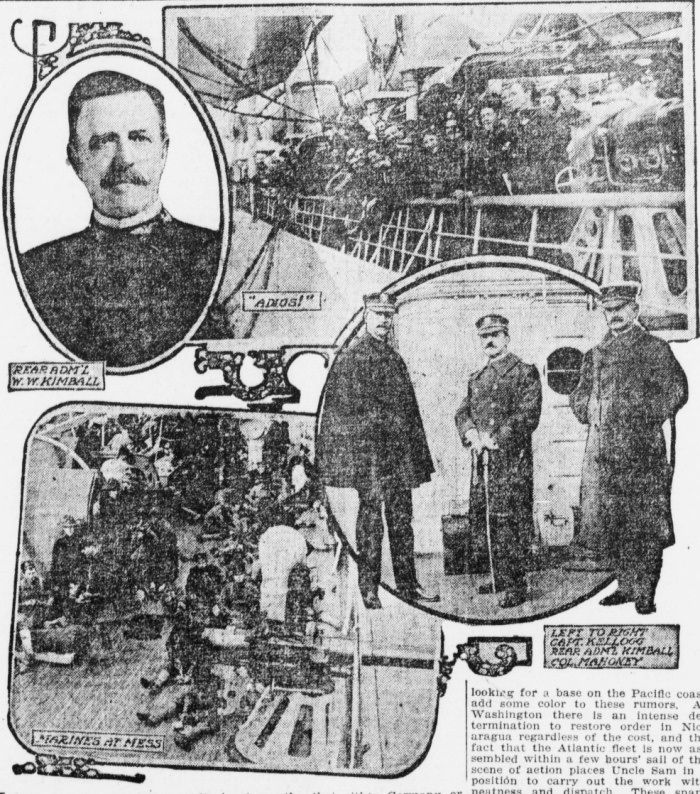 U.S. Marines and officers en route to Nicaragua, 1909. Left to right are Capt. Kellogg, Rear Admiral Kimball and Colonel Mahoney. Kimball is also at top left.